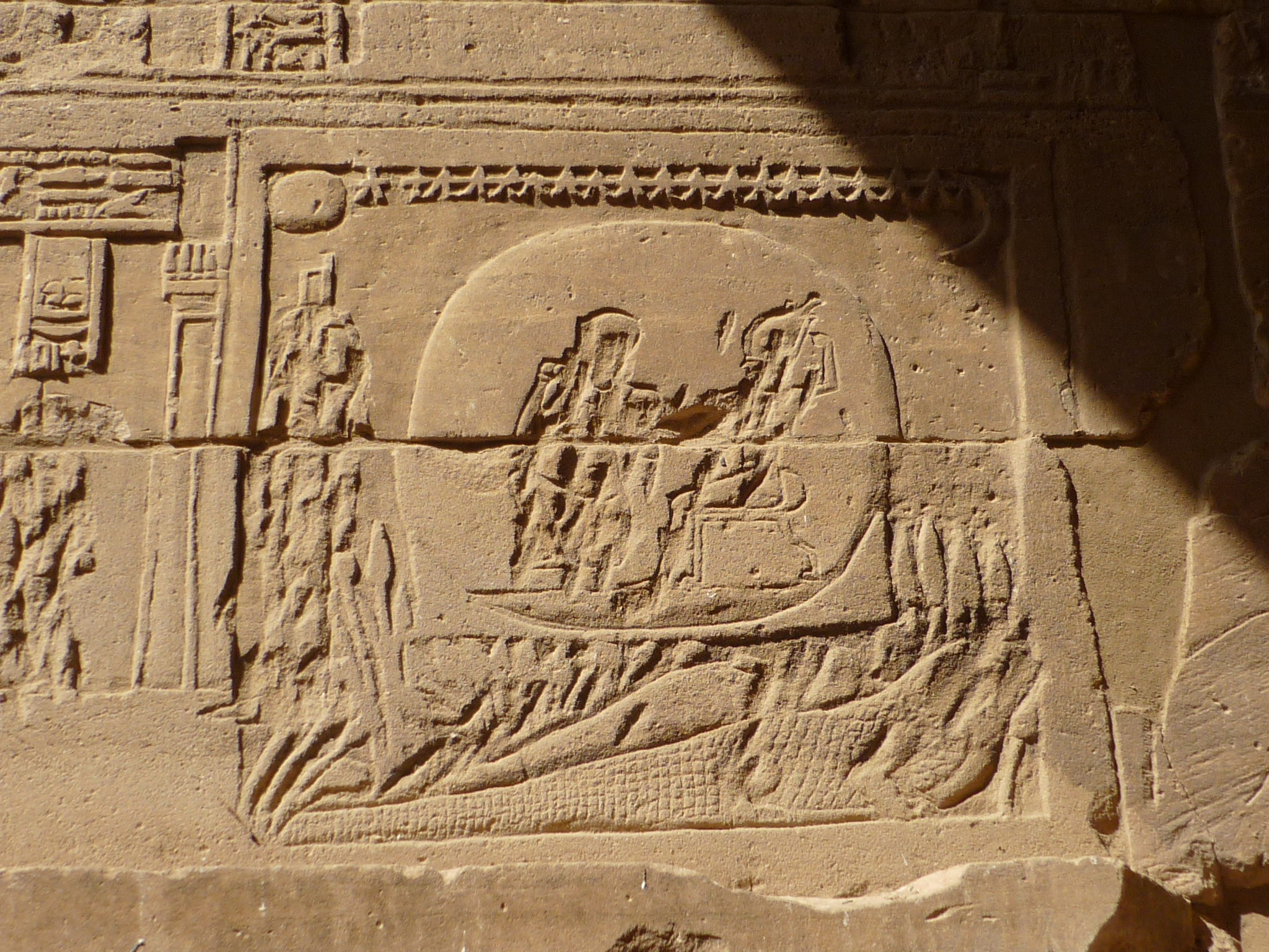 A crocodile with Osiris mummy on his back with Isis (left) and a solar disk (above), Isis Temple, Philae Island, Egypt